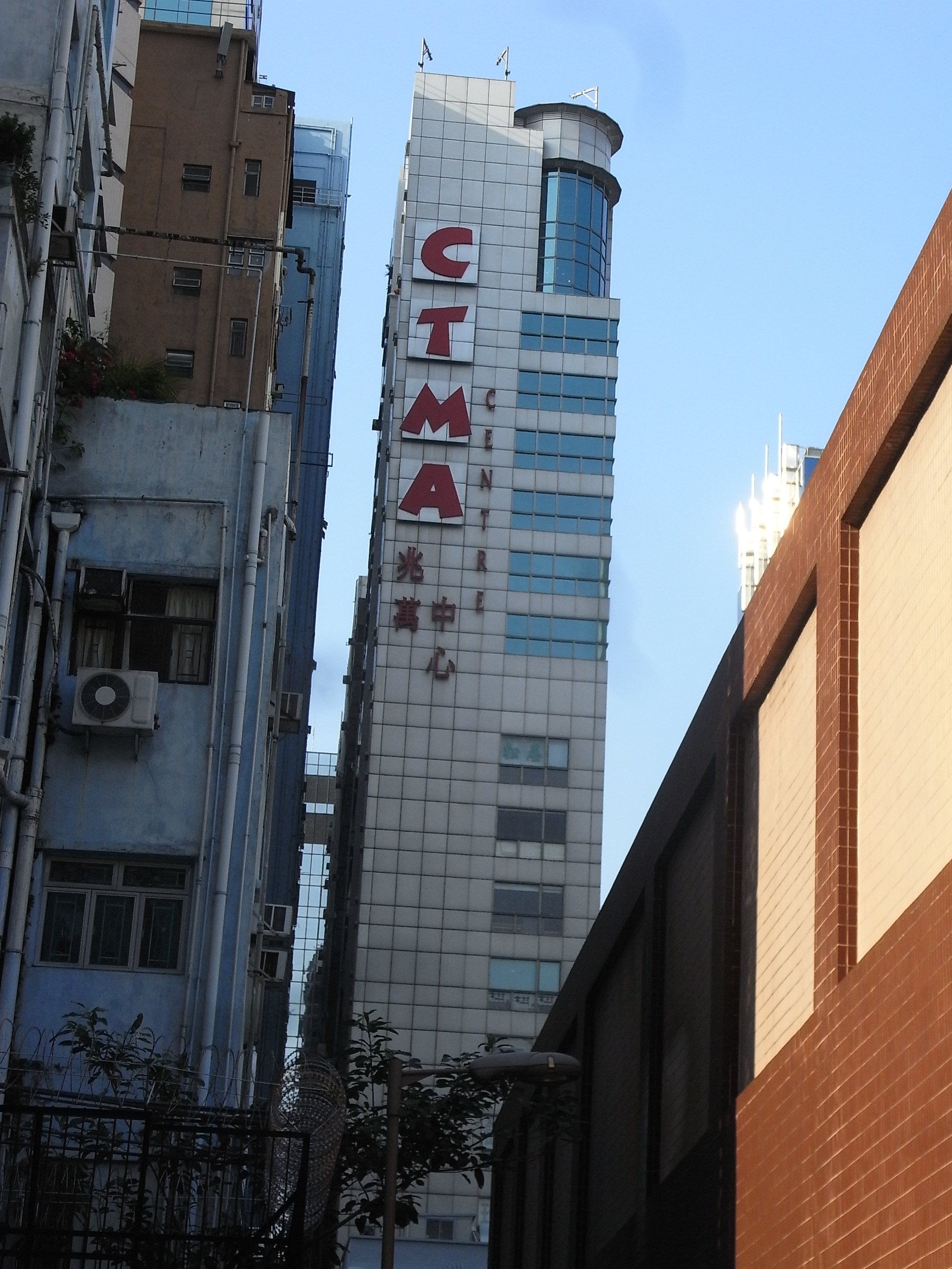 九龍 油麻地 咸美頓街 後巷 至 登打士街, Hamilton Street back lane, Yau Ma Tei, Kowloon, Hong Kong